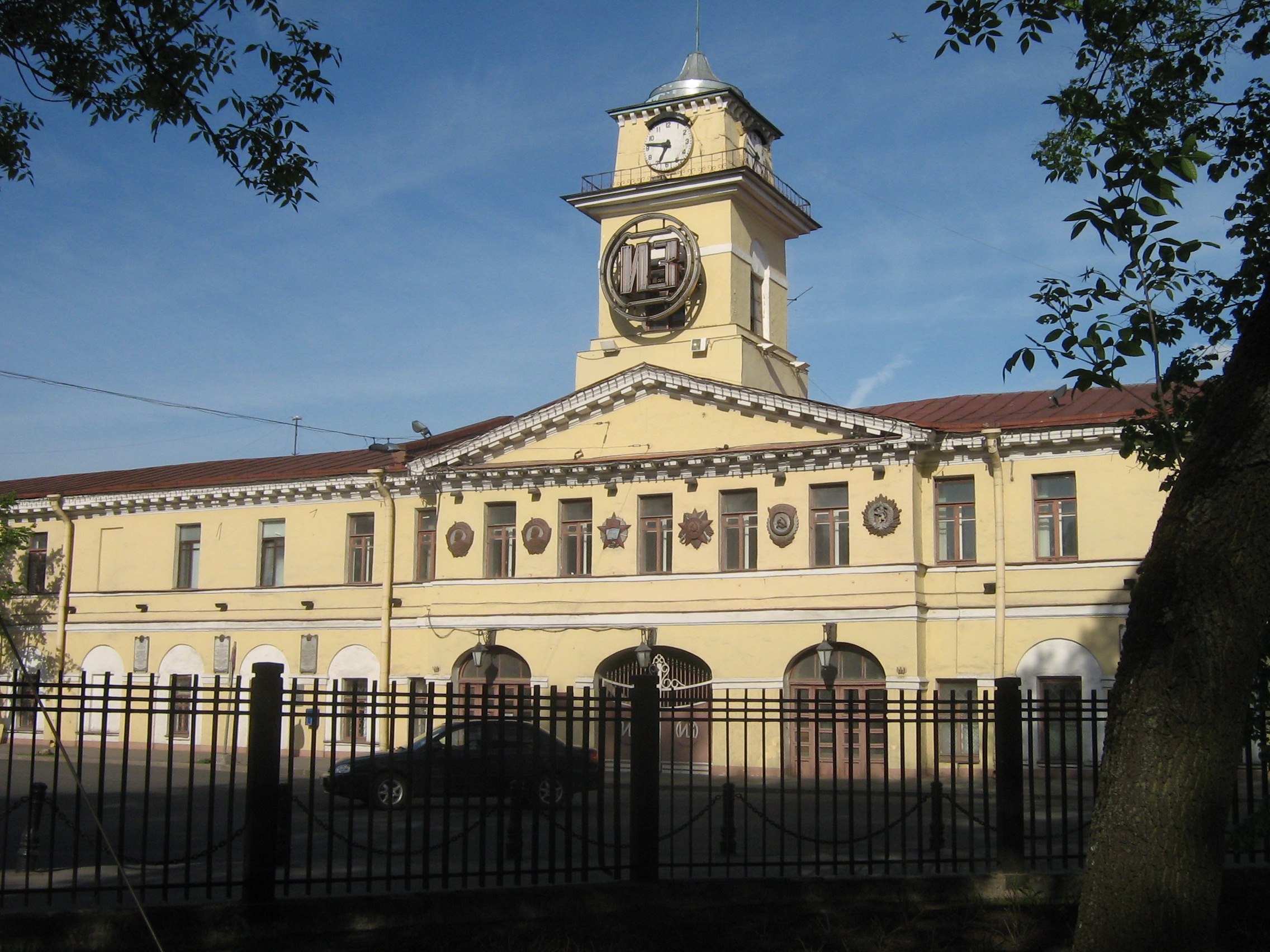 Kolpino (Russia)